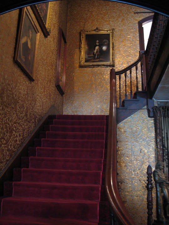 Gibson House Museum Foyer